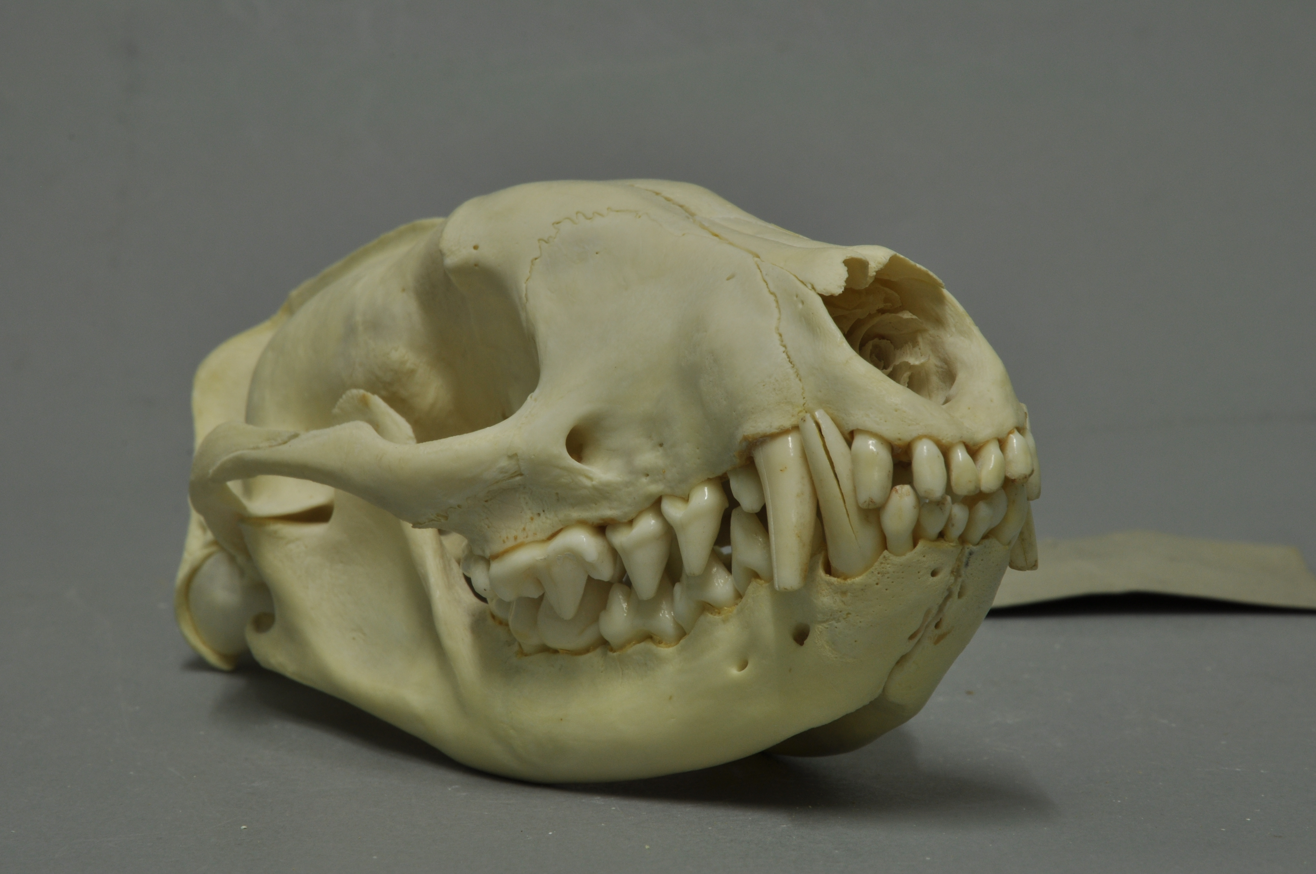 African civetCivettictis civetta, skull, Coll. Museum Wiesbaden